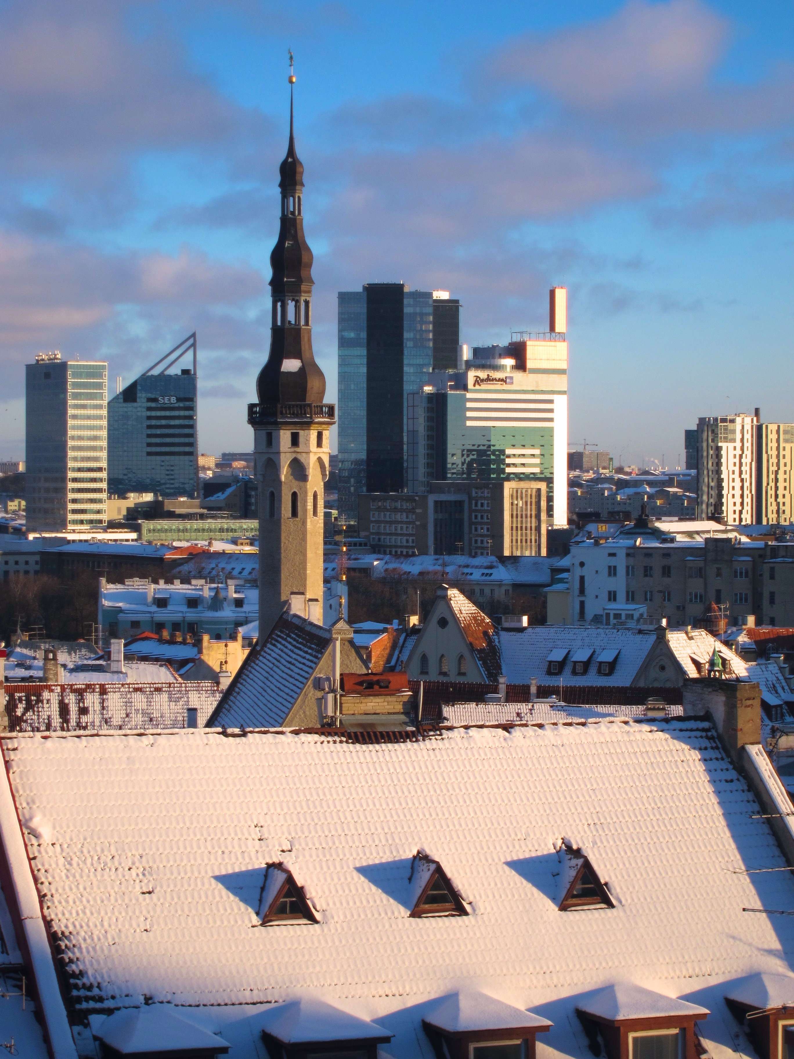 The view from Kohtuotsa vaateplatvorm on a sunny winter day.